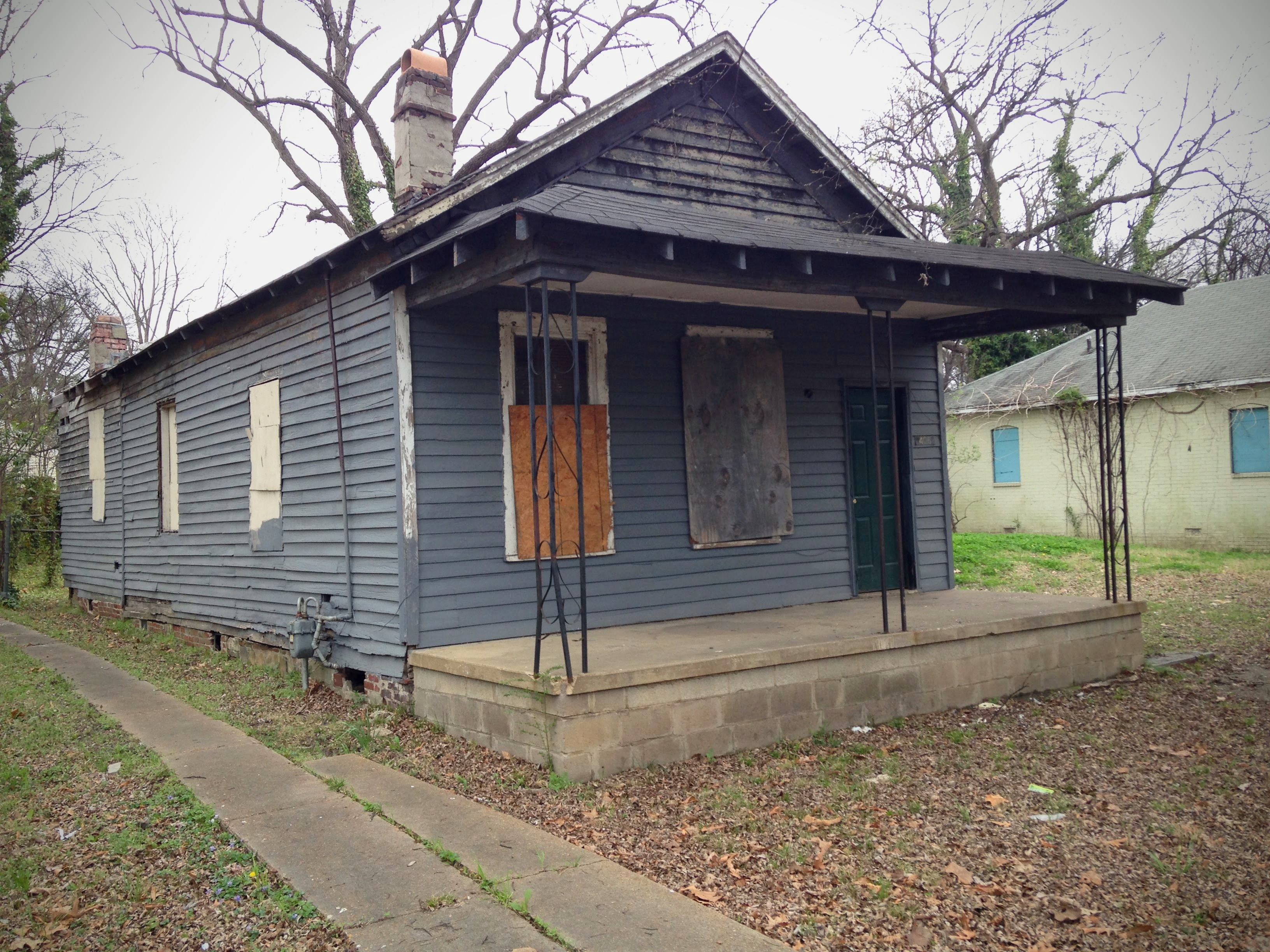 Aretha Franklin's birthplace on Lucy Street in Memphis, Tennessee.